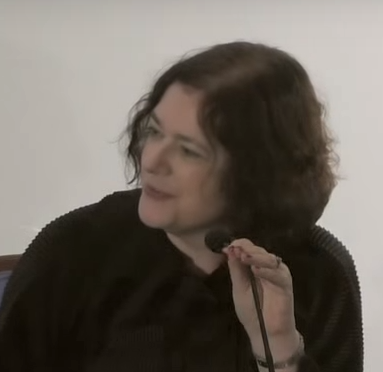 Vidhu Vinod Chopra and Prof Rachel Dwyer at SOAS